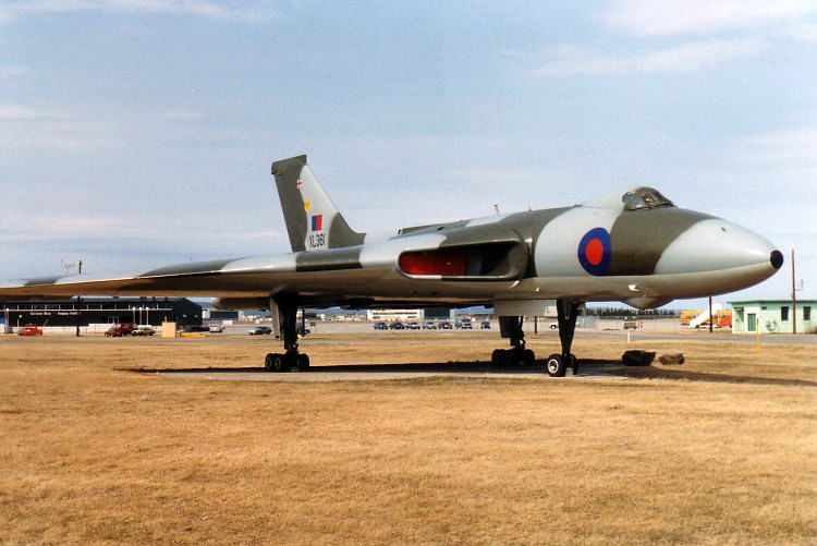 Avro Vulcan monument at CFB Goose Bay in 1988.